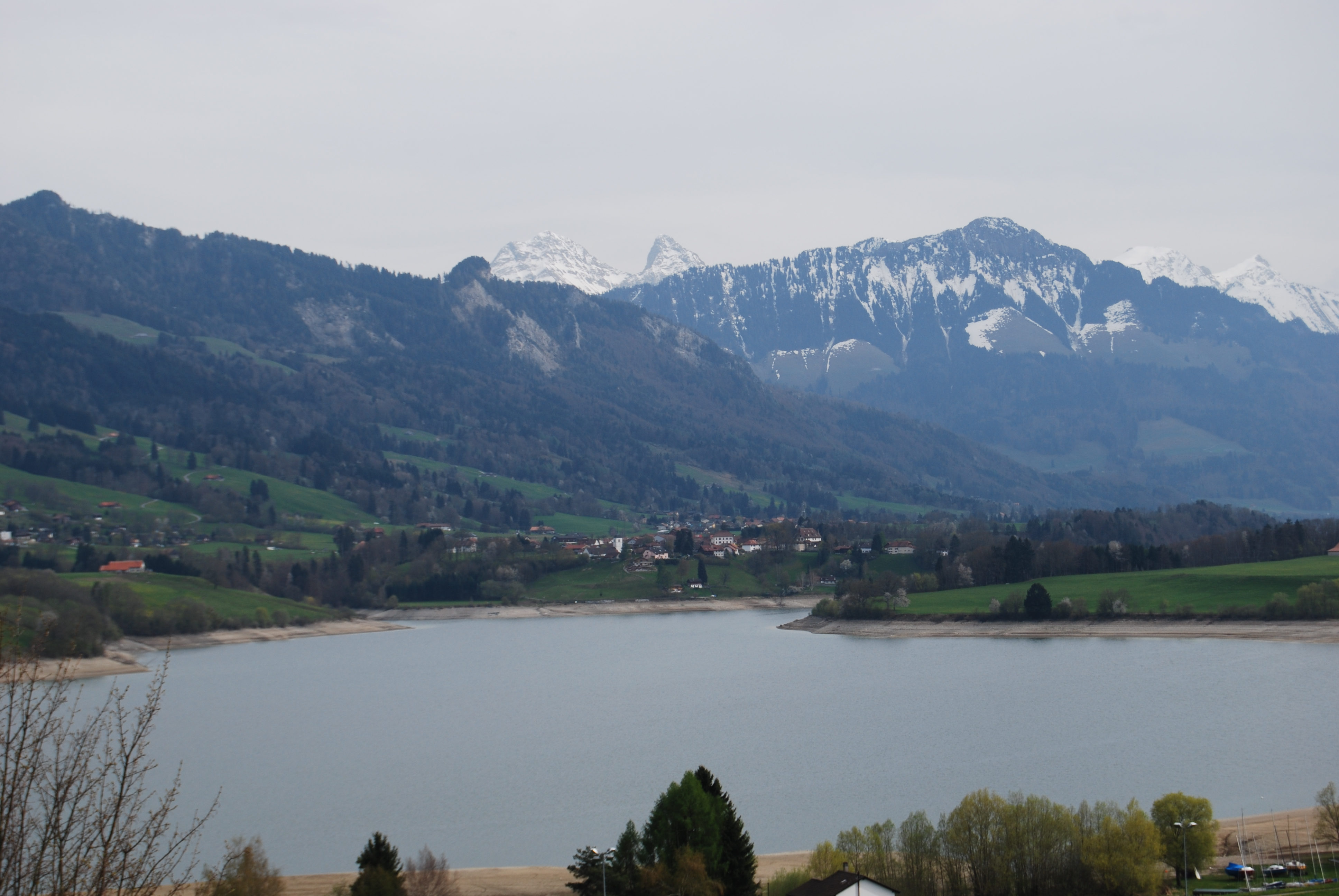 Corbières and Lake of Gruère seen from the rest area La Gruyère, canton of Fribourg, Switzerland